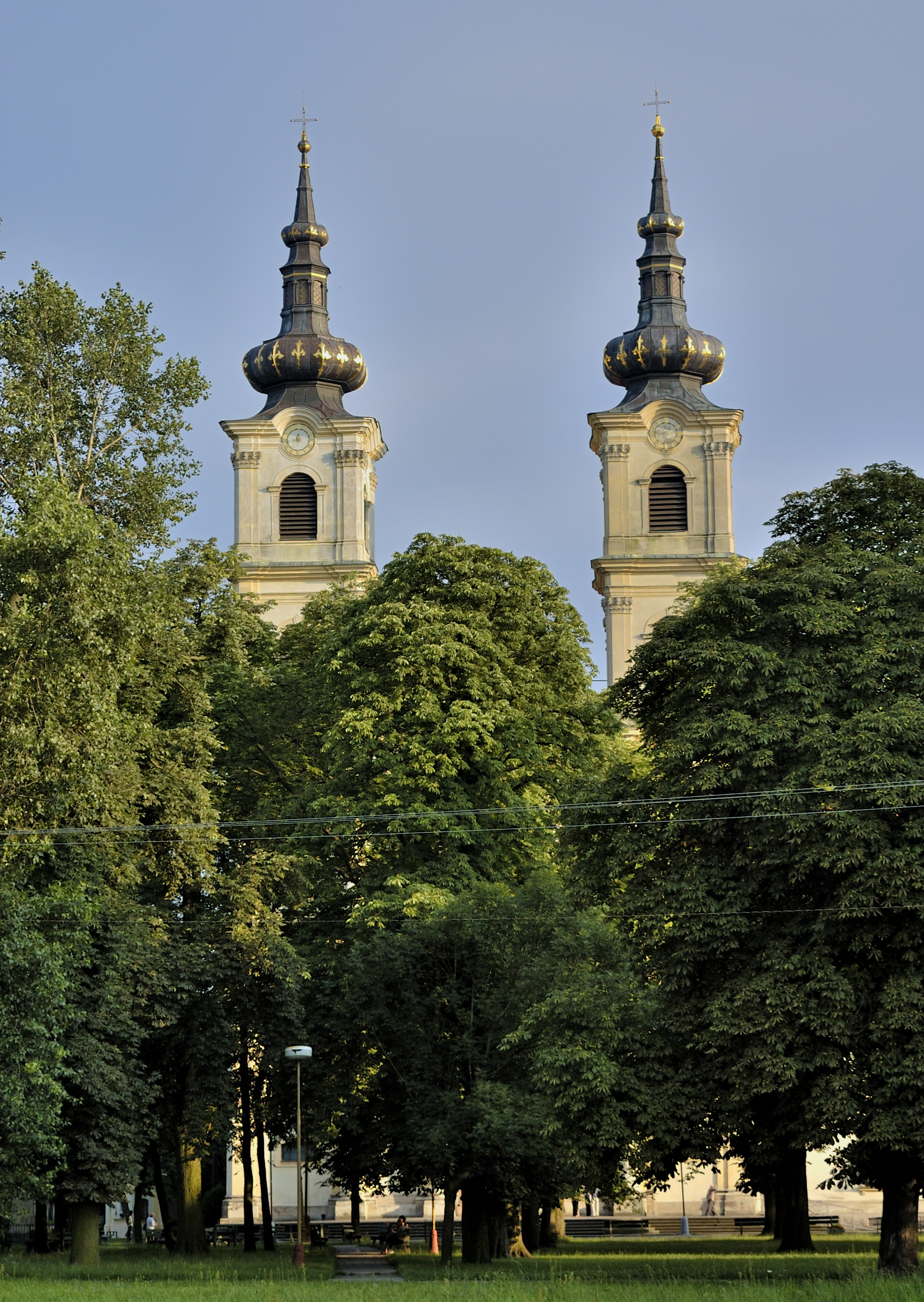 Basilica in Šaštín-Stráže